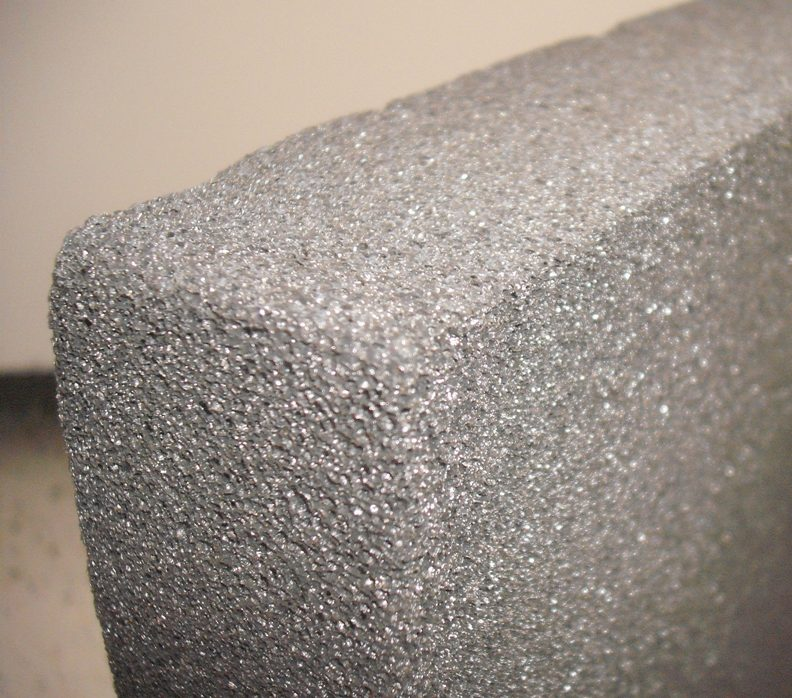 Foamglas